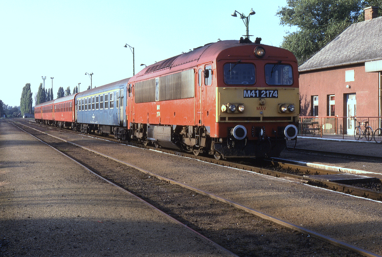 M41 2174 at Tiszalök on 19 September 1996 having worked train 36622, 07:25 Debrecen to Tiszalök.